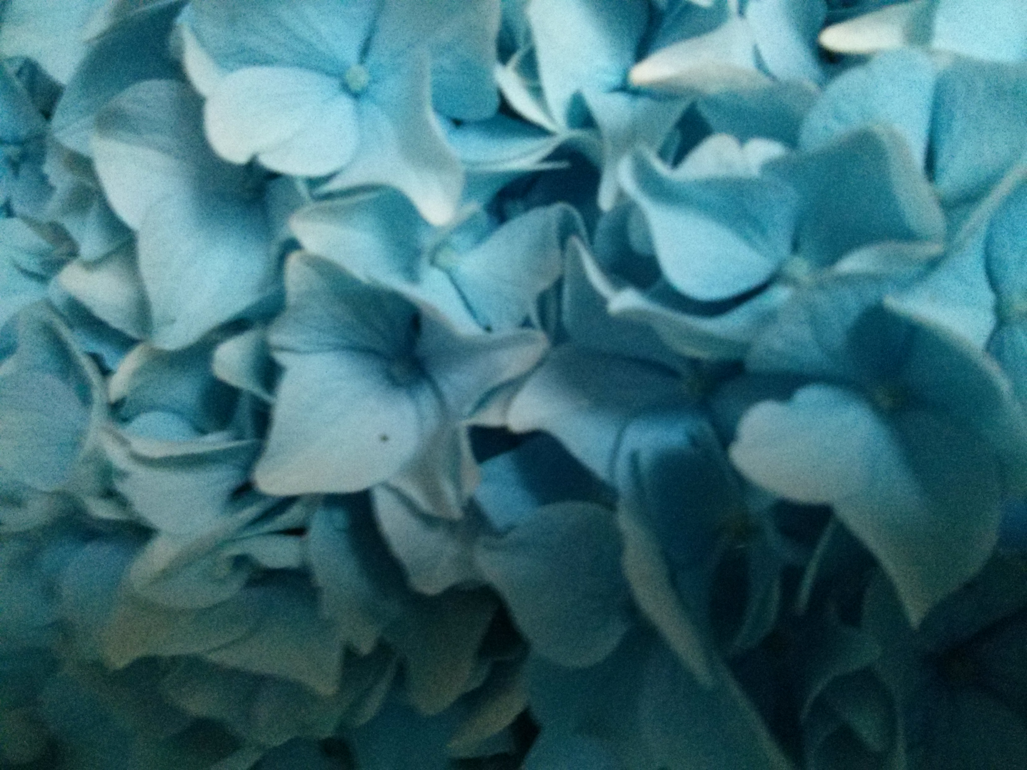 Close-up of blue hydrangea